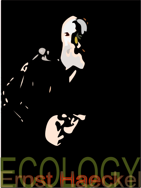 Ecological poster of Ernst Haeckel